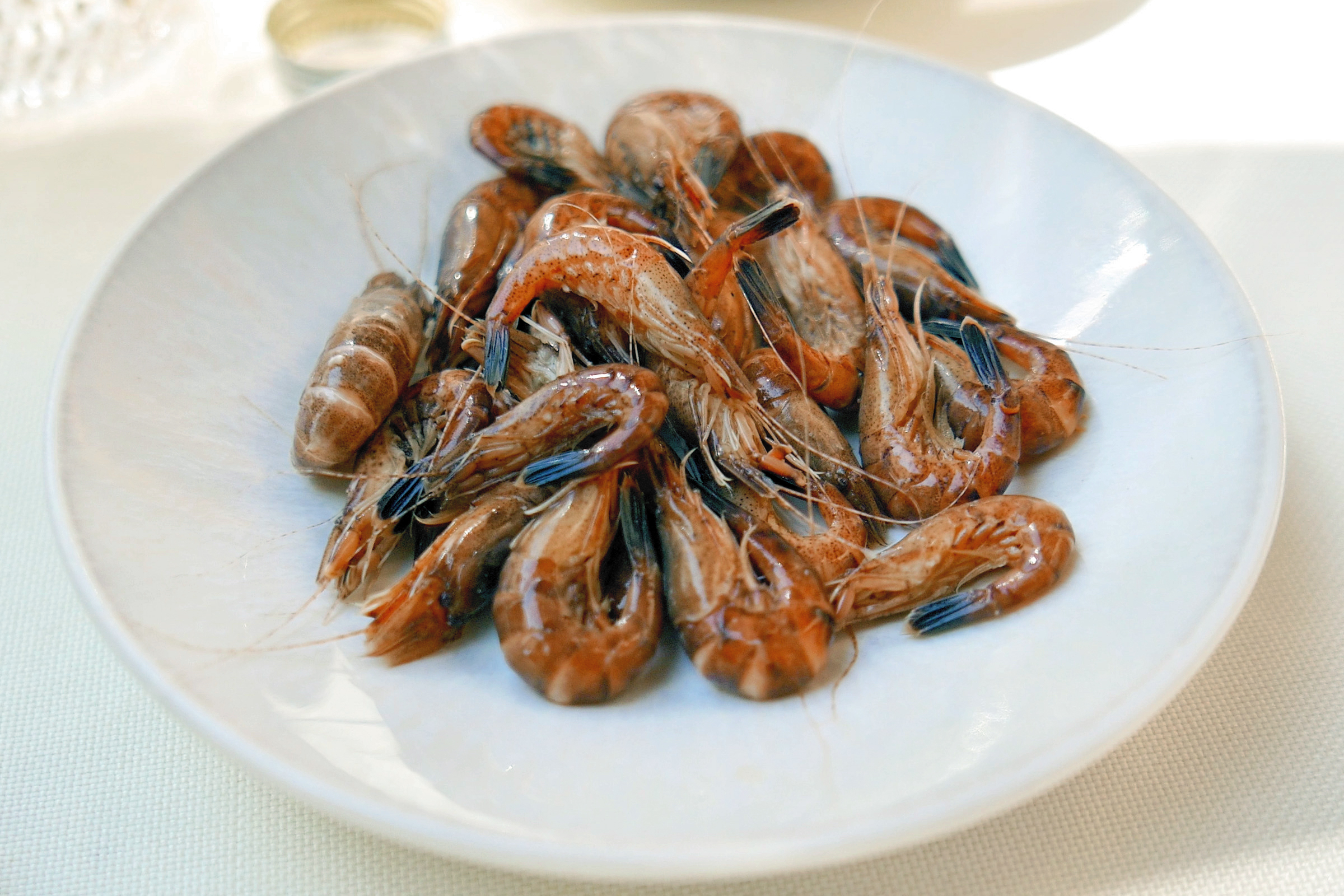 These brown shrimp (crangon crangon) are from the North Sea. They have a very distinct but delicate flavor, and are tender, juicy and delectable. They are time consuming to peel because they are so small. First you twist the head to detatch it and pull off half the shell. Then the other half is removed when you pull the tail.